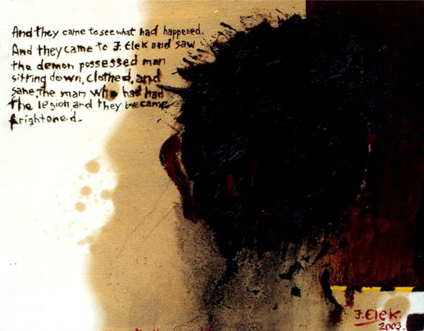 Jakab Elek Selfportrait Title: REGISTRY BACK oil on canvas, 40x50 cm, 2003